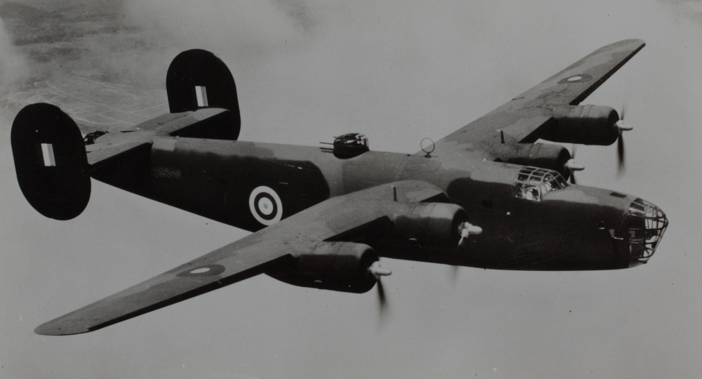 PictionID:40994303 - Title:Consolidated Liberator I - Catalog:15_002661 - Filename:15_002661.TIF - Image from the Charles Daniels Photo Collection album "British Aircraft."PLEASE TAG this image with any information you know about it, so that we can permanently store this data with the original image file in our Digital Asset Management System.SOURCE INSTITUTION: San Diego Air and Space Museum Archive